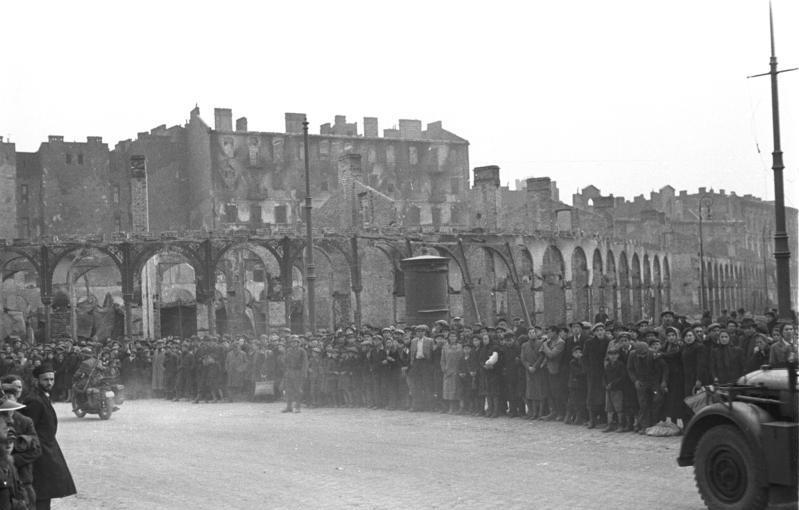 Warsaw during World War II